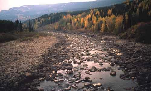 The most important spawning part of the river at minimal water level